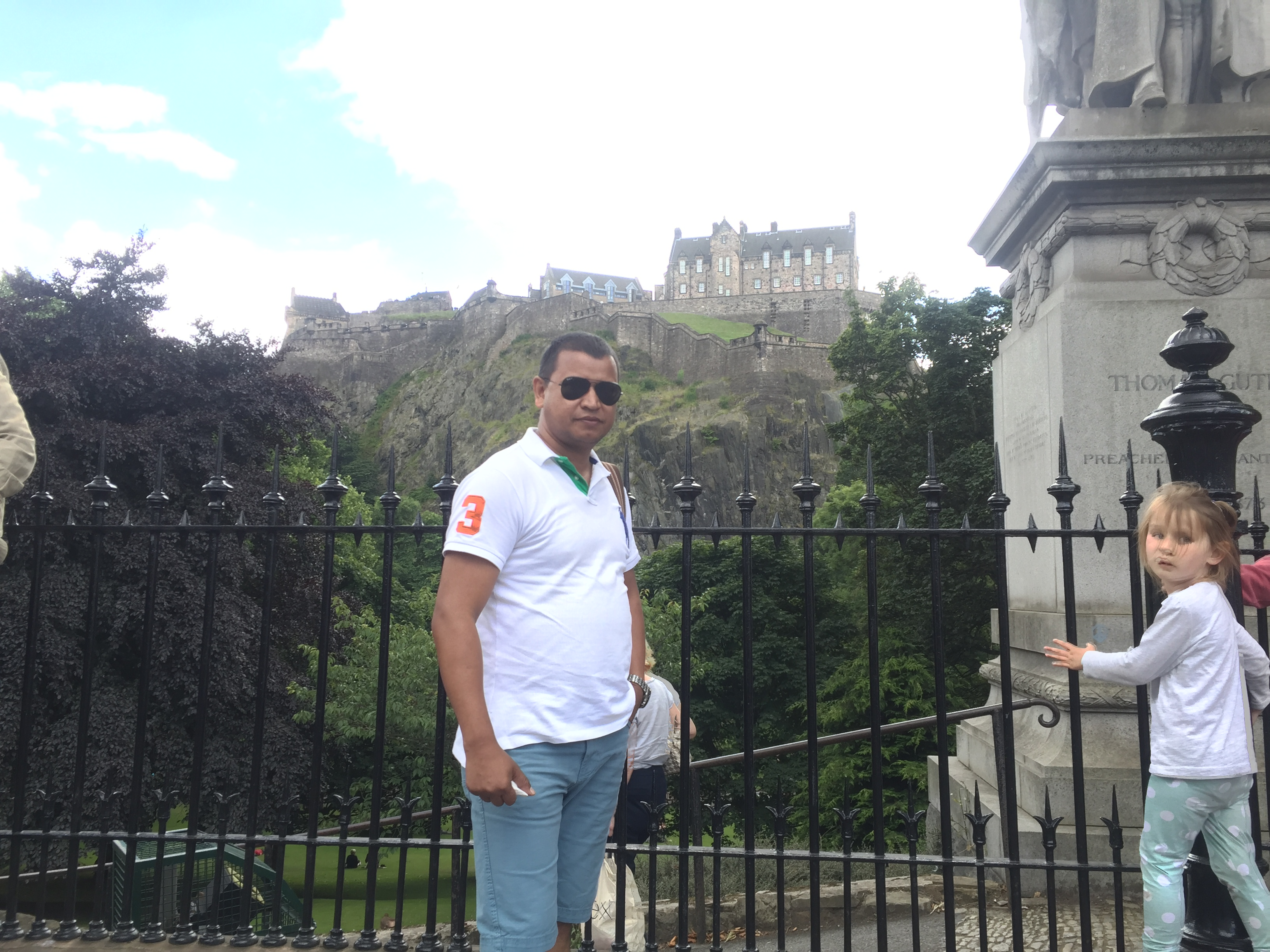 Subash Karki during visit to Scotland.